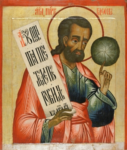 Judge Gideon, Russian Orthodox icon from first quarter of 18-th cen.